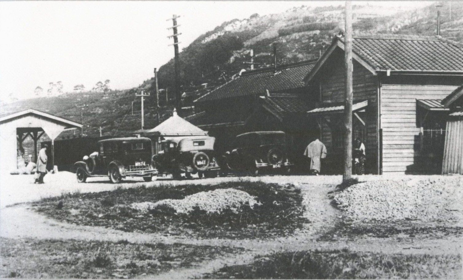 Kisei Main Line Minoshima Station in ca. 1933